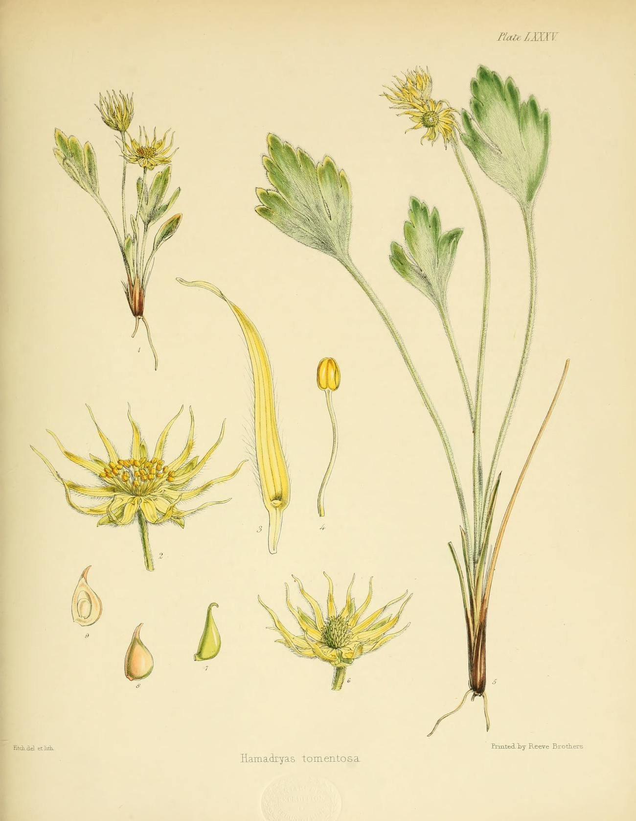 jpg of Plate LXXXV of Hooker's Flora Antarctica. Hamadryas tomentosa